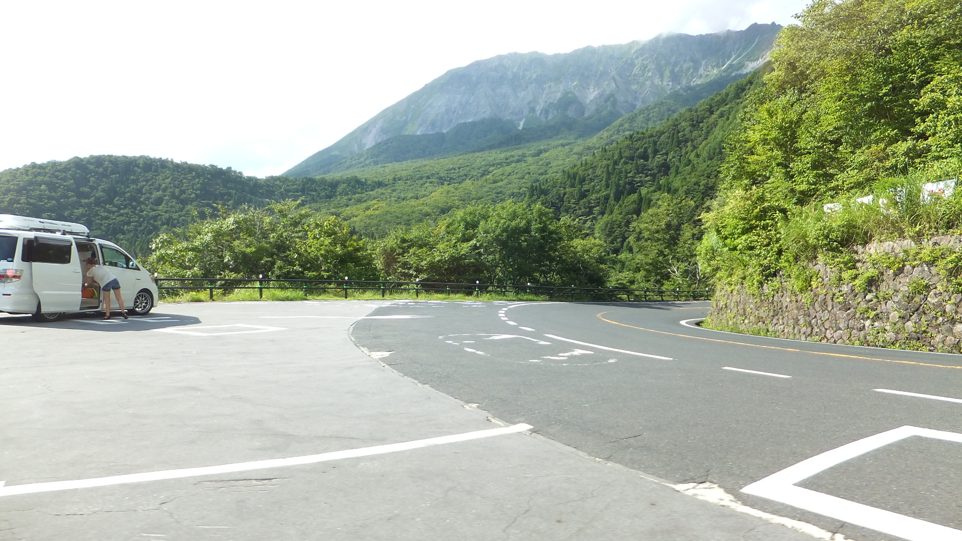 Kagikake Pass